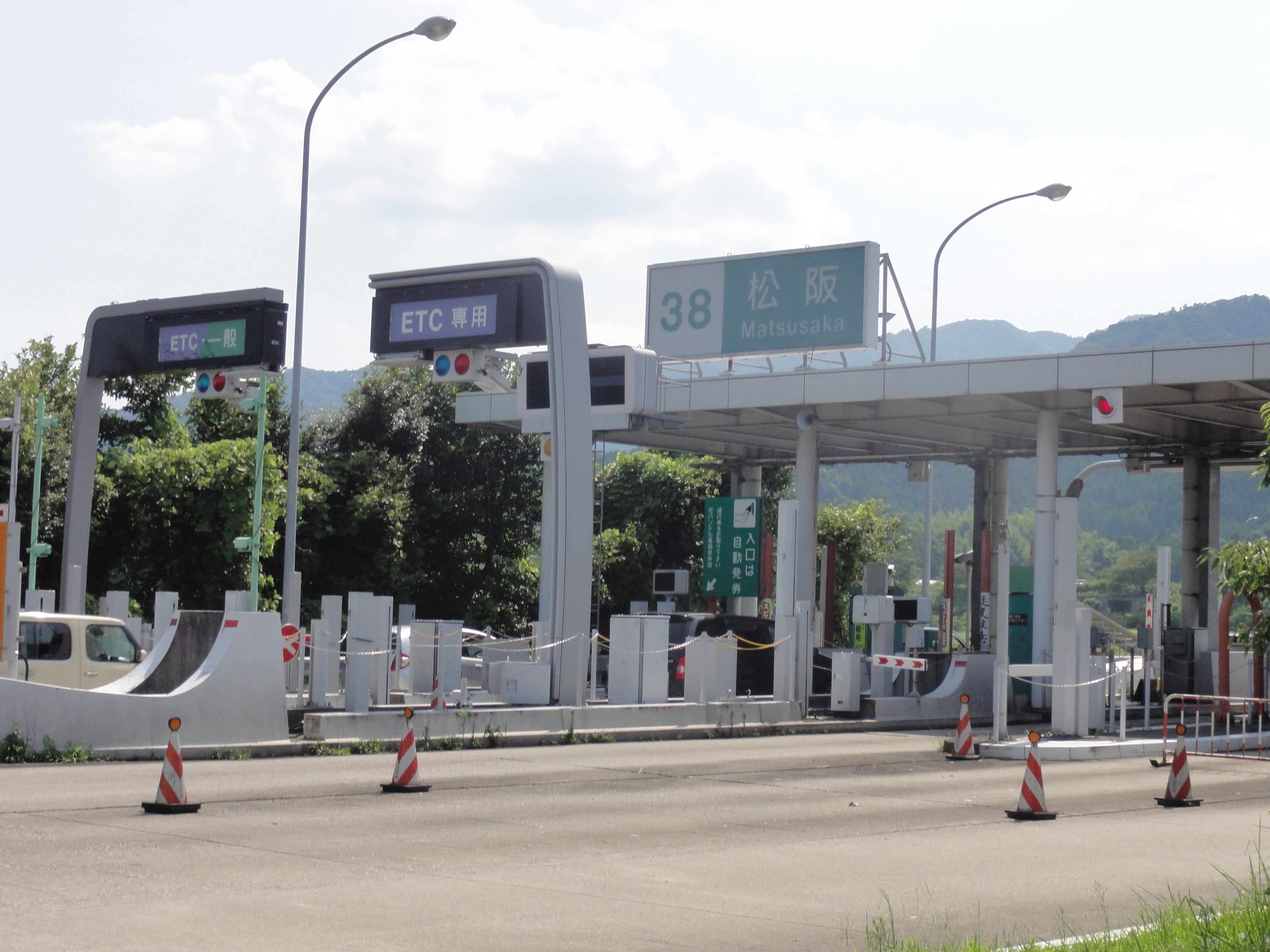 Matsusaka Interchange of Ise Expressway, Mie Pref., Japan.